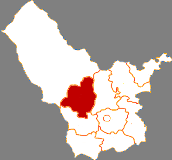 Locator map of Chahar Right Middle Banner in Ulanqab City, Inner Mongolia, China